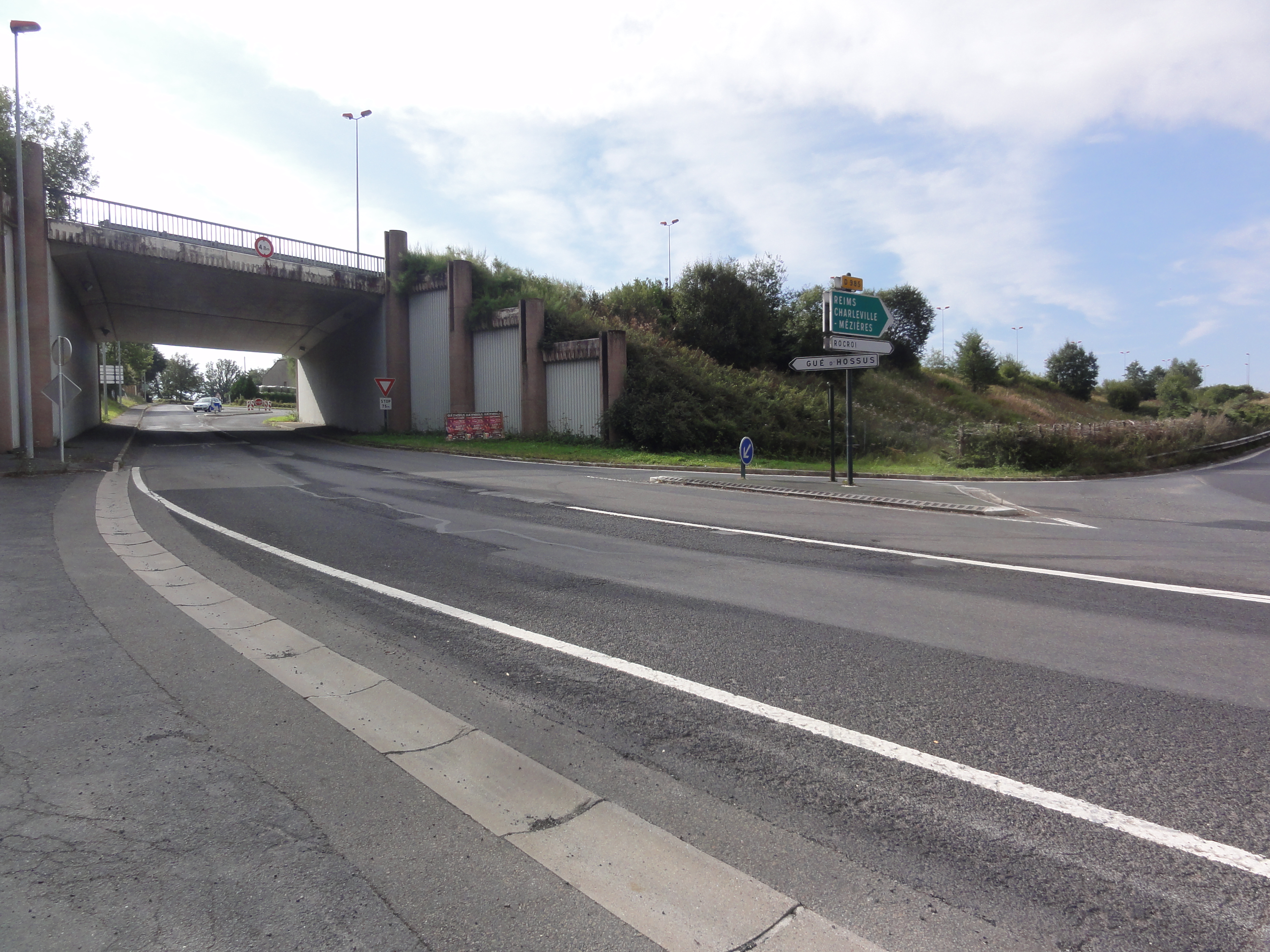 Gué d'Hossus, viaduc sous l'autoroute A304 (D985)